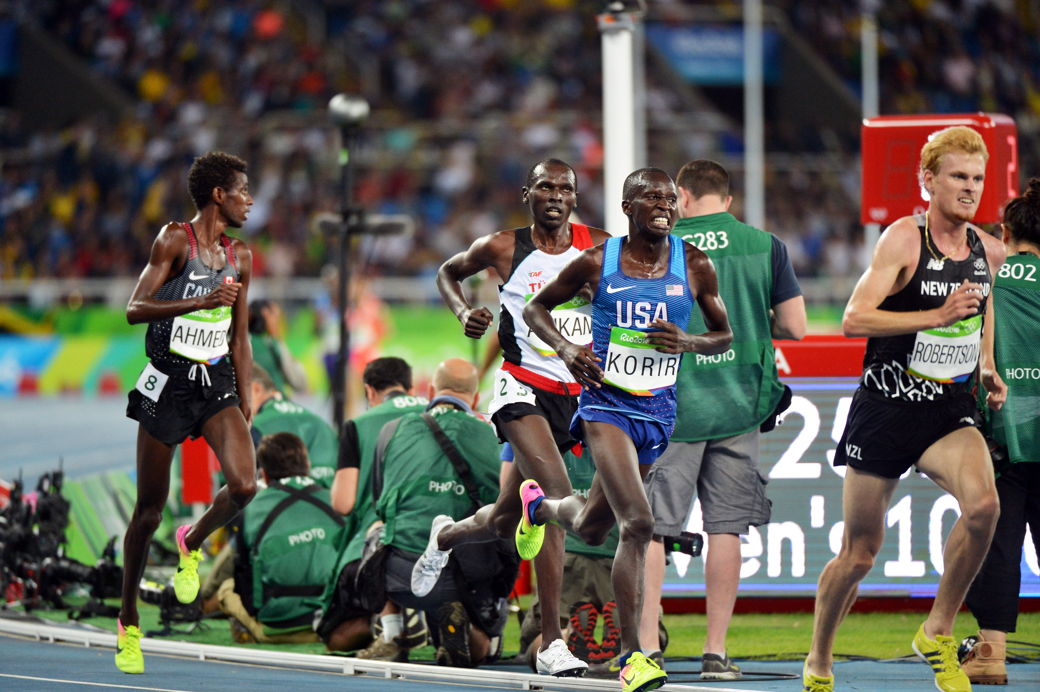 Spcs. Leonard Korir and Shadrack Kipchichir finish 14th and 19th respectively in the men's 3,000-meter run Aug. 13 at the 2016 Rio Olympic Games in Rio de Janeiro. Both Soldiers in the U.S. Army World Class Athlete Program turned in their season-best performaces, with Korir finishing in 27 minutes, 58.65 seconds and Kipchirchir clocked at 27:58.32. Mohamed Farah of Great Britain successfully defended his Olympic crown by winning the race in 27:05.17. Paul Kipnetech Tanui of Kenya took the silver in 27:05.64, and Tamirat Tola of Ethiopia claimed the bronze in 27:06.27.